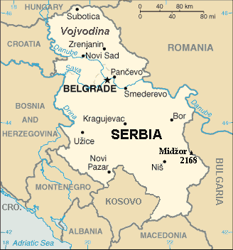 Map of the Republic of Serbia (FIPS 10 country code standard: RB)